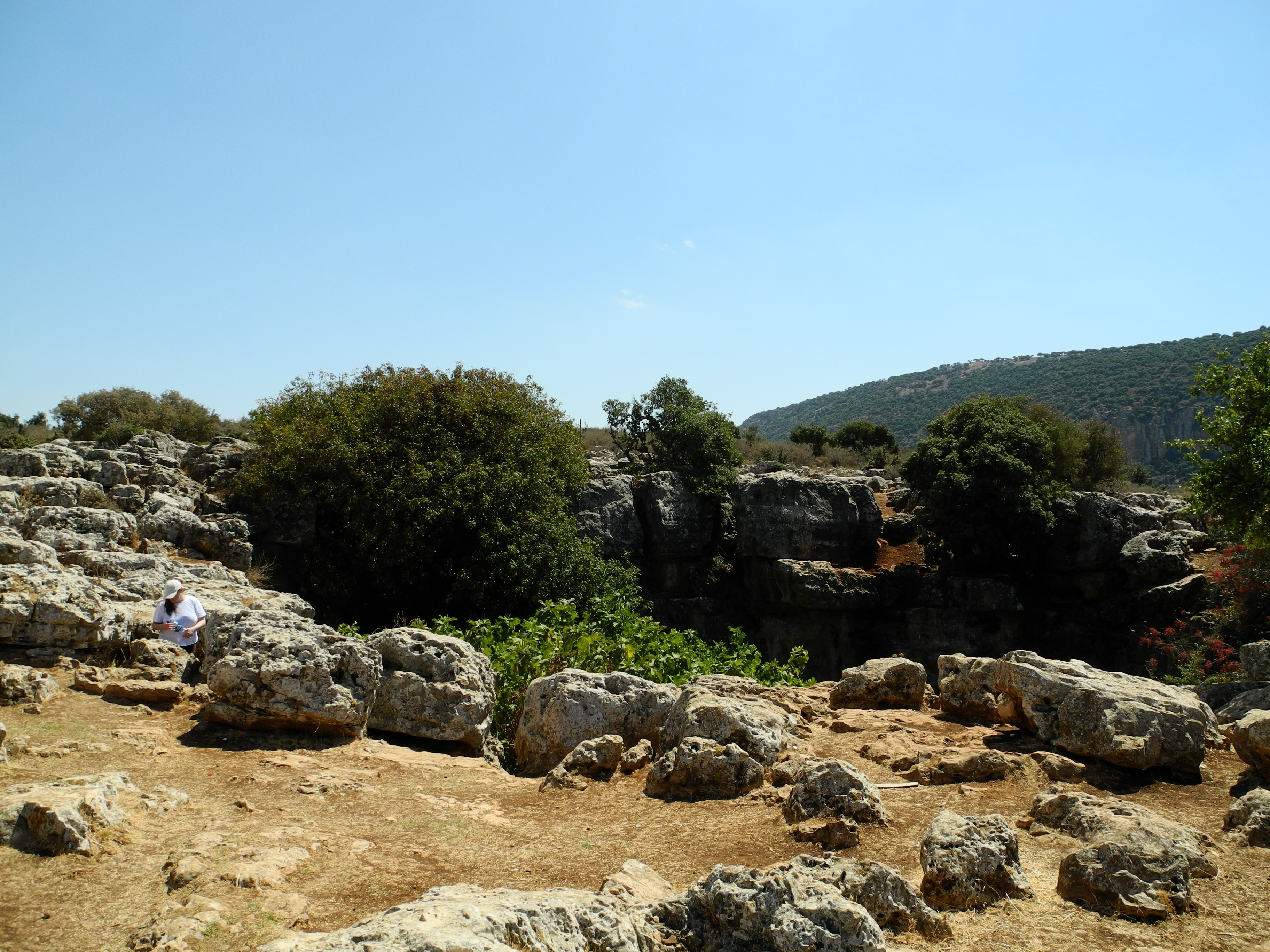 Alma Cave near Rehaniya (Upper Galilee, Israel): the hole in the ground where the entrance to the cave is found at the bottom.